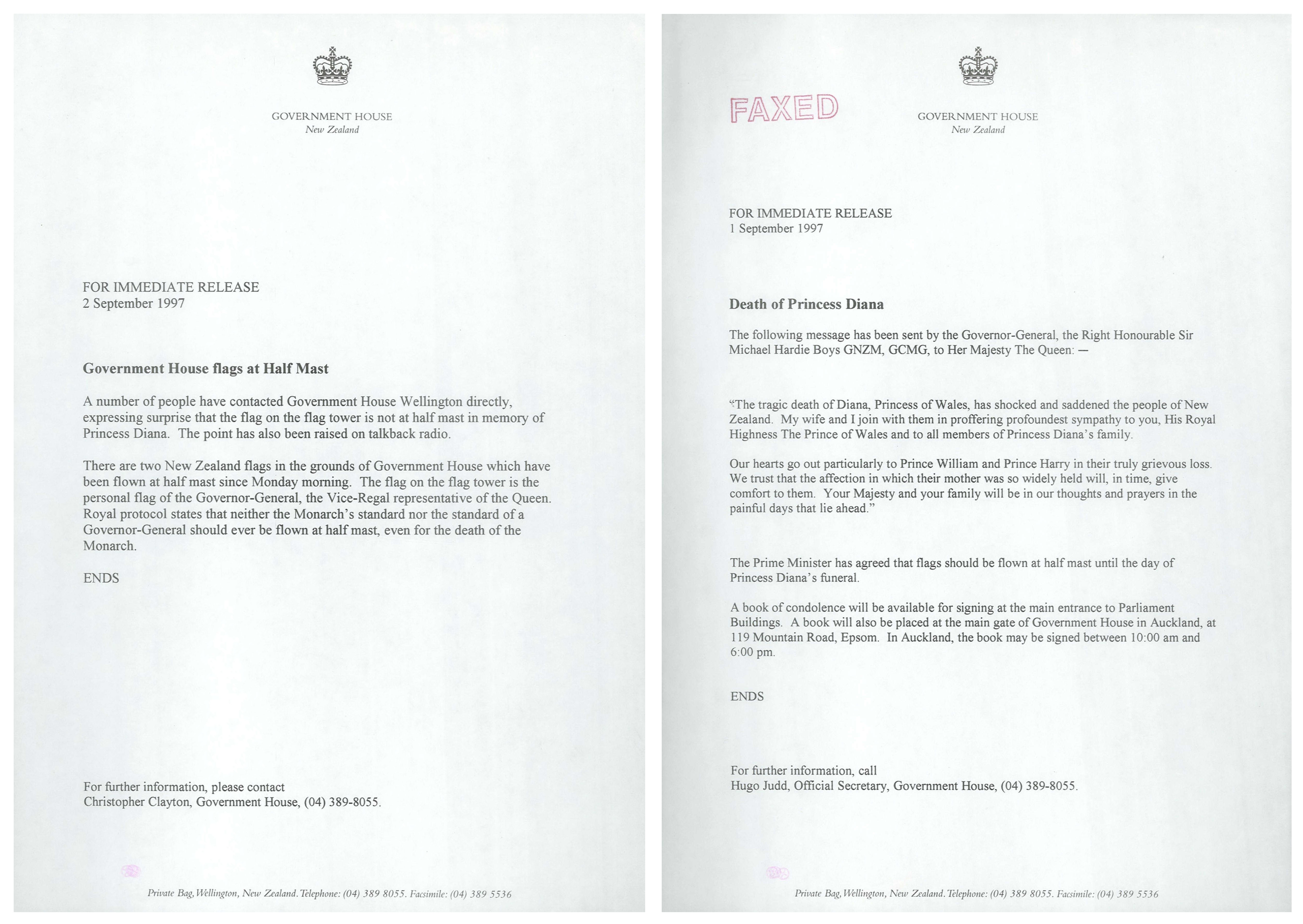 On 31 August 1997, Diana, Princess of Wales died as a result of injuries sustained in a car crash in the Pont de l'Alma road tunnel in Paris, France. Her friend, Dodi Fayed, and the driver of the Mercedes-Benz W140, Henri Paul, were pronounced dead at the scene; the bodyguard of Diana and Dodi, Trevor Rees-Jones, was the only survivor. The death of the 36 year old princess prompted an unprecedented international outpouring of grief, and her televised funeral was watched by approximately 2.5 billion people. The news of the deaths reached New Zealand in the afternoon of the 31st of August, and the following day the Governor General, Michael Hardie-Boys, sent a letter to the Queen expressing his sympathy on behalf of the country. During the week following Diana’s death there was some confusion, both in Britain and in New Zealand, over the protocol of flying flags at half mast. At Govenment House both New Zealand flags were flown at half mast, however the personal flag of the Governor General was not, which caused concern to some members of the public. A statement from Government House was released to the public clarifying that this flag should never be flown at half mast, even for the death of a monarch. These letters come from a folder of correspondence regarding the official response of the New Zealand government to the death of Diana, Princess of Wales, created by the office of the Governor General. Archives reference: AAKU W5931 14/ For updates on our On This Day series and news from Archives New Zealand, follow us on Twitter Material from Archives New Zealand